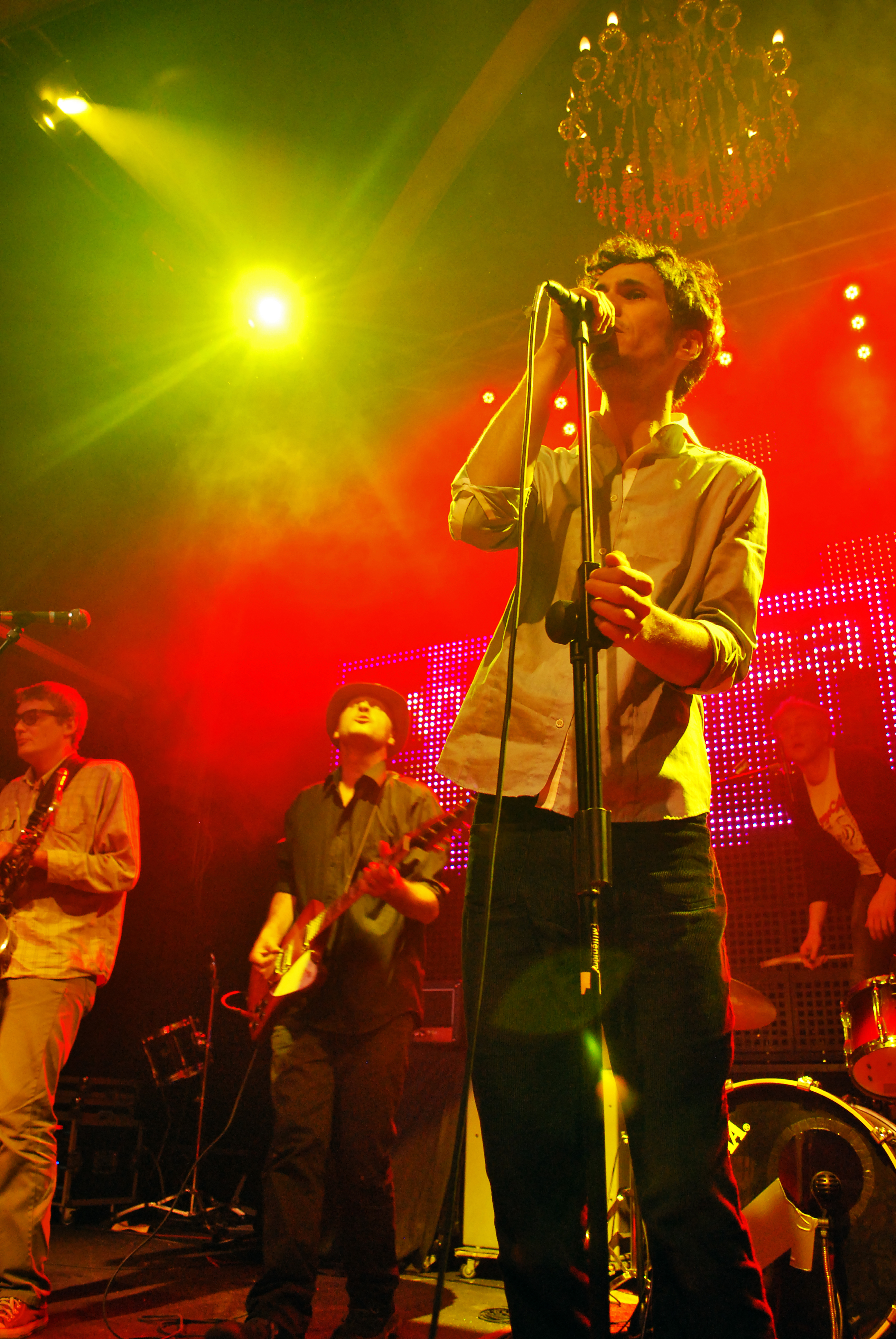 Kumm playing at Galele Studentesti in Silver Church, Bucharest.